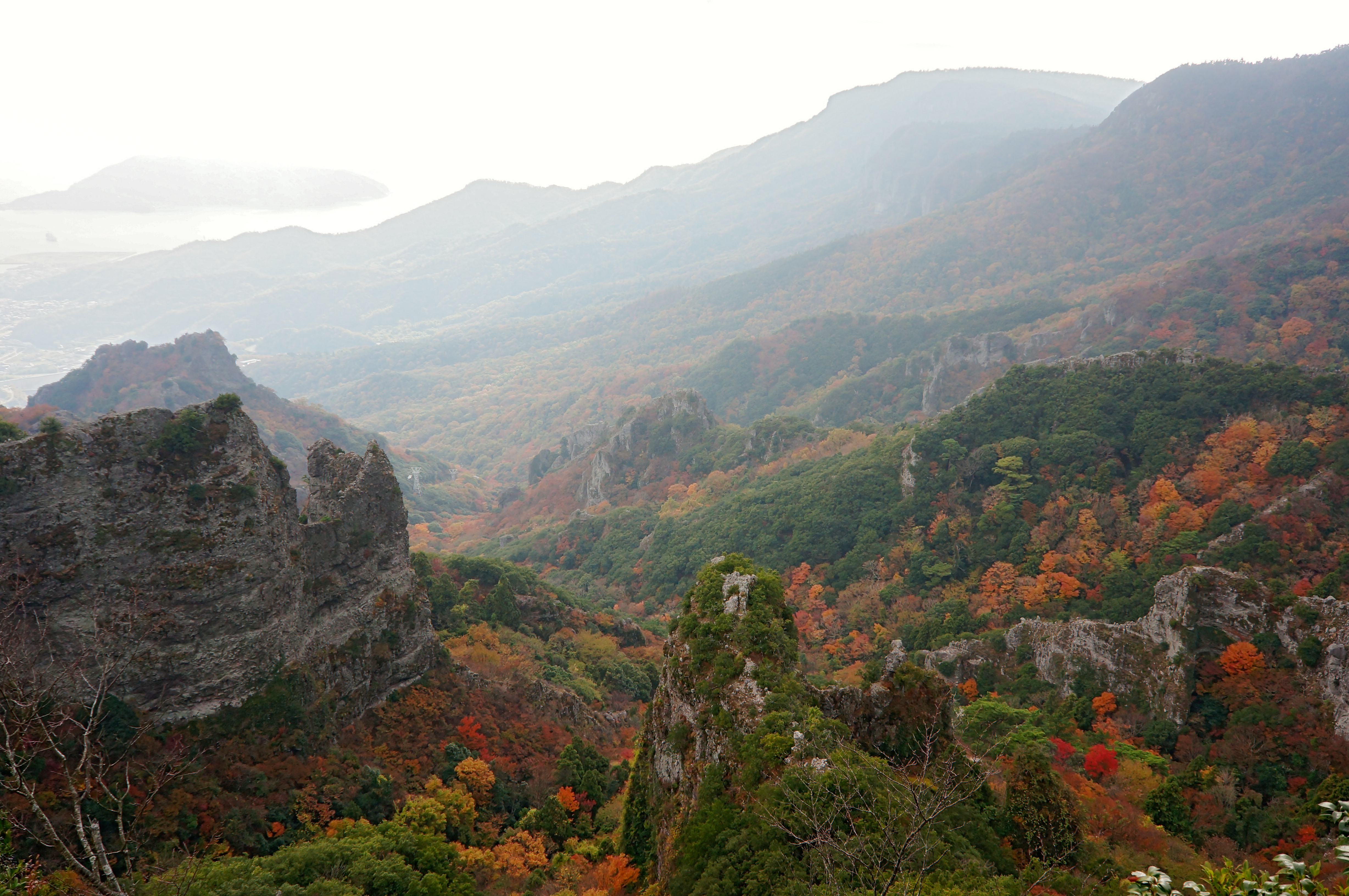 Kankakei in Shodoshima, Kagawa Prefecture, Japan